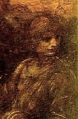 Leonardo da Vinci: Adoration of the Magi, detail.